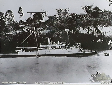 AWM Caption: BRISBANE, QLD. C.1886. STARBOARD BROADSIDE VIEW OF THE QUEENSLAND GUNBOAT GAYUNDAH. THE WHITE ENSIGN INDICATES THAT THE PHOTOGRAPH WAS TAKEN DURING OR AFTER 1886, WHEN, AFTER THE QUEENSLAND GOVERNMENT HAD OFFFERED HER SERVICES TO THE ADMIRALTY, PERMISSION WAS GIVEN TO WEAR IT. THE FIGHTING TOP FITTED TO HER FOREMAST WAS LATER REMOVED AND THE MAST HEIGHTENED. THE FORWARD 8 INCH GUN MAY BE CLEARLY SEEN PROJECTING FROM ITS CASEMATE AND THE 6 INCH GUN IS PROMINENT ON THE STERN.